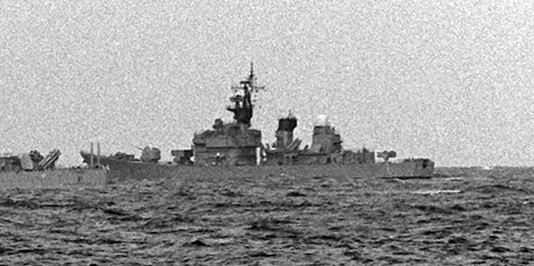 The destroyer JS Takatsuki (DD-164) sails in formation with the guided missile cruiser USS Lake Champlain (CG-57), left, during Fleet Exercise '89.